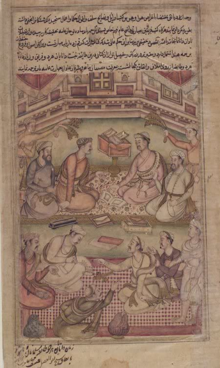 Hindu and Muslim scholars discuss the Mahabharata, by Dhanu 1598-1599. The Razmnama or "the book of war ' A manuscript from 1598 to 1599. It is made in India. It was written in Persian at the request of the Mughal Emperor Akbar (reign 1556-1605). Persian was at that time the official court language. The Razmnama is a translation (a brief translation) the Mahabharata. So the fact that the text is in Persian says nothing about the content. The content has nothing to do with Persia but concerns one of the fundamental texts of Hinduism.